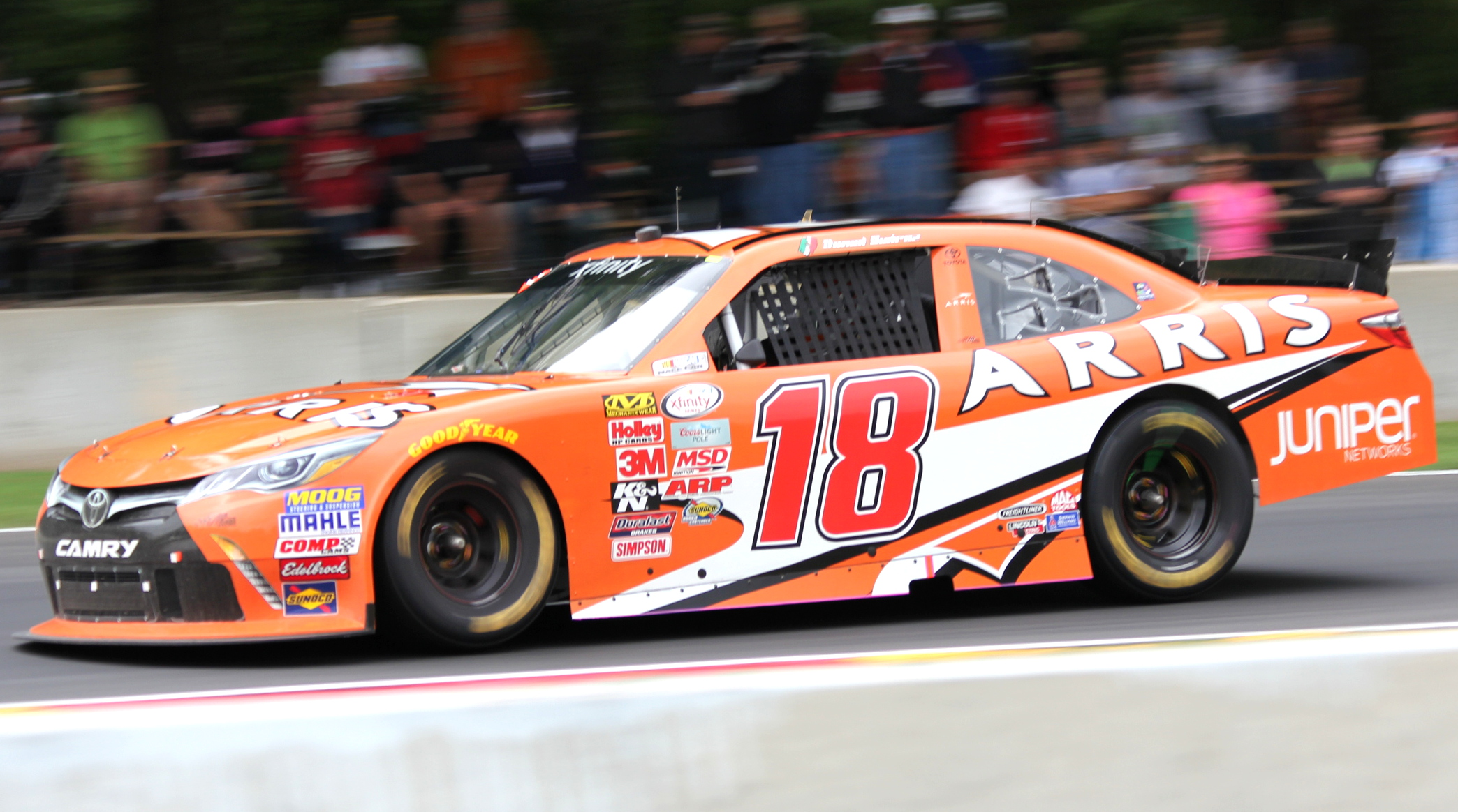 The NASCAR Xfinity Series car of Daniel Suarez turning left in Turn 6 at Road America.